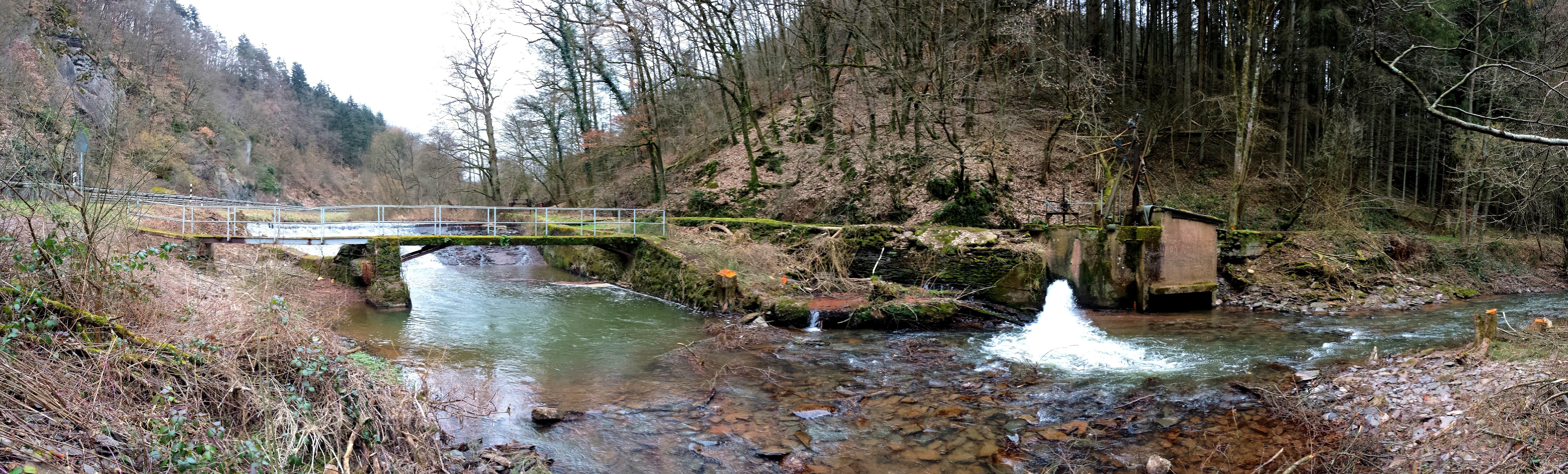 Old wear of the former Ironwear Plant in the Alf-Valley